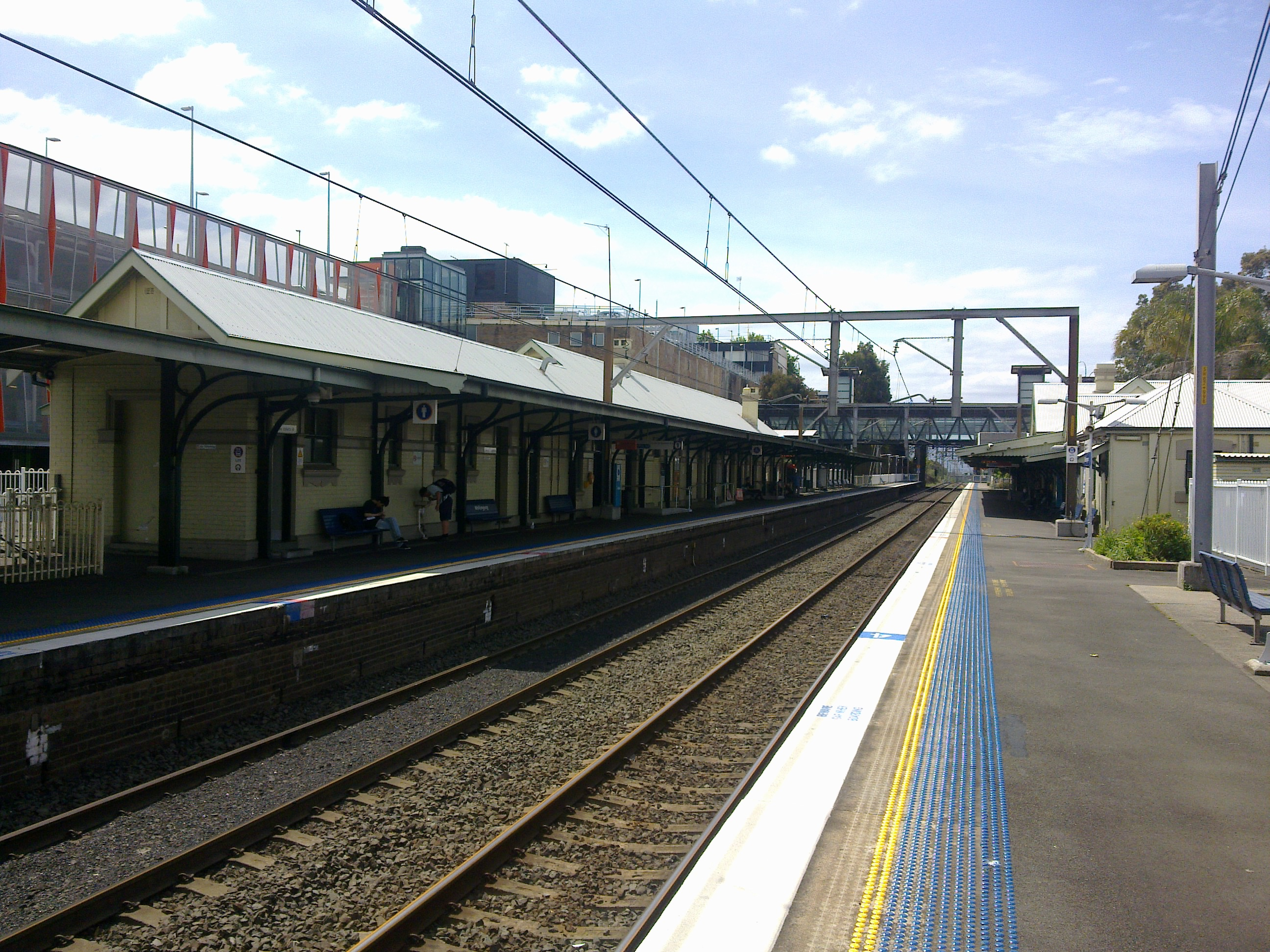 Wollongong railway station